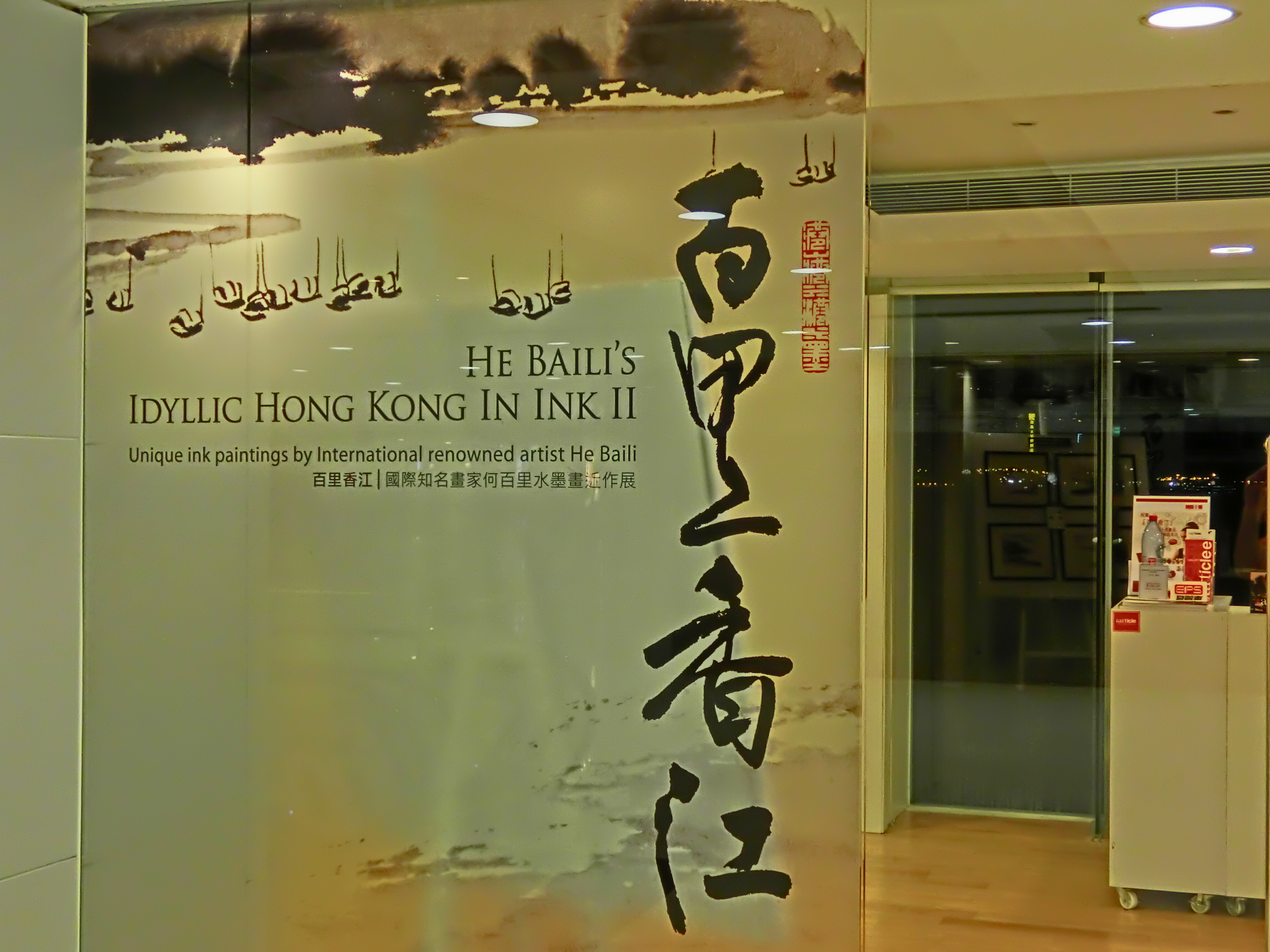 九龍尖沙咀 海港城, Harbour City, Tsim Sha Tsui, Hong Kong